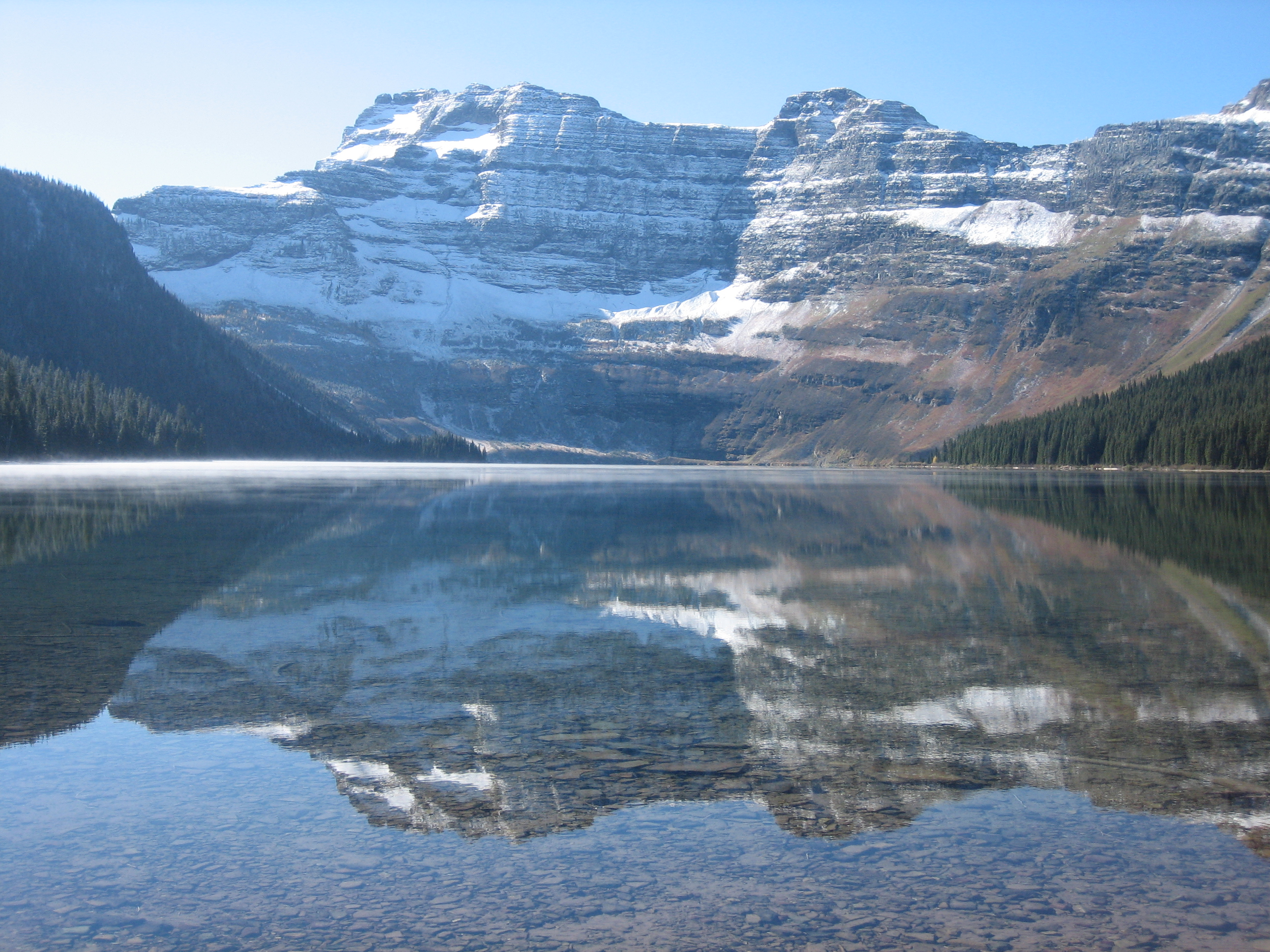 Taken at Cameron Lake in Waterton Lakes National Park